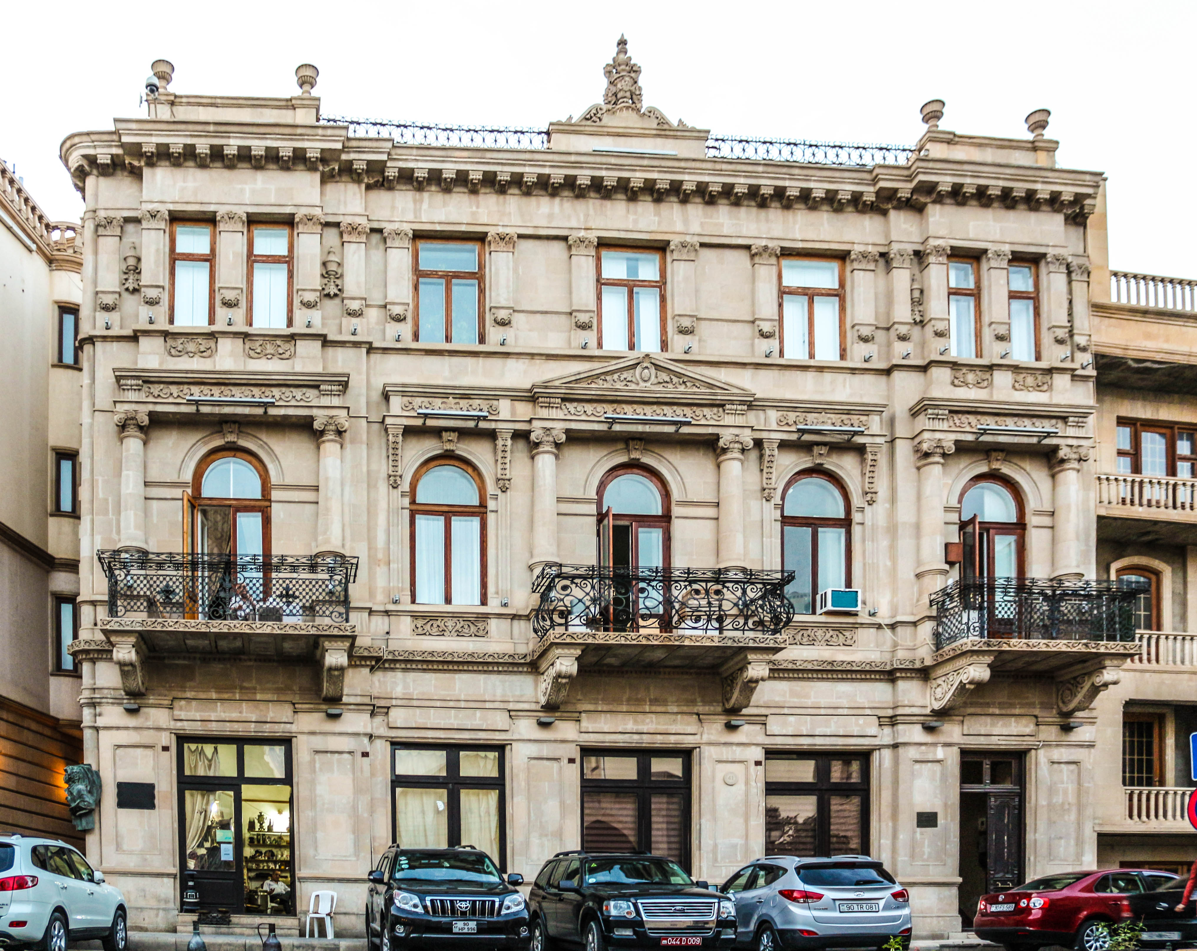 Building on Asaf Zeynally Street 41